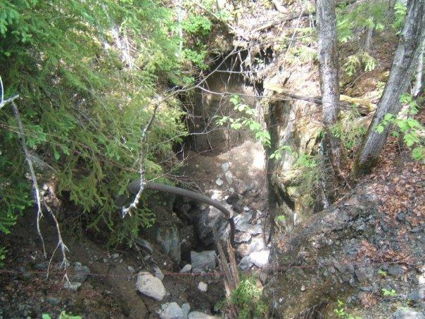 The remains of a mine shaft at Beanland Mine, Temagami, Ontario, Canada.